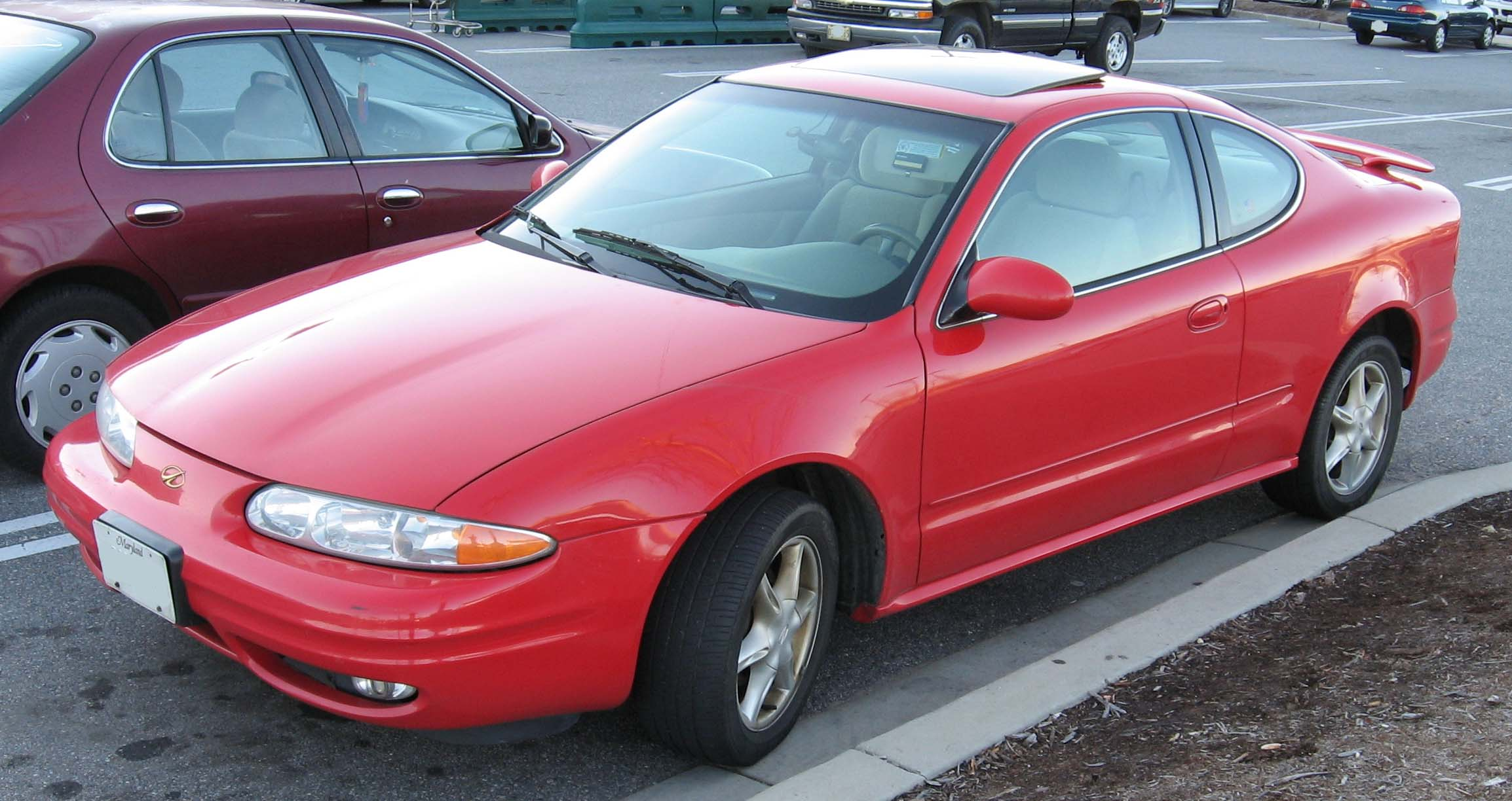 1999-2004 Oldsmobile Alero coupe photographed in USA.